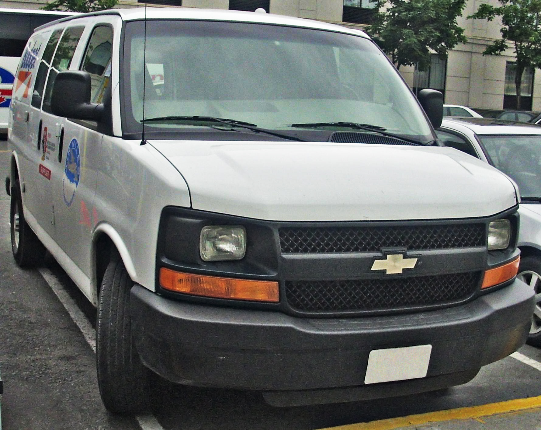 Chevrolet Express (Budget Rent-A-Car) photographed in Ottawa, Ontario, Canada at the Byward Market Auto Classic 2009.